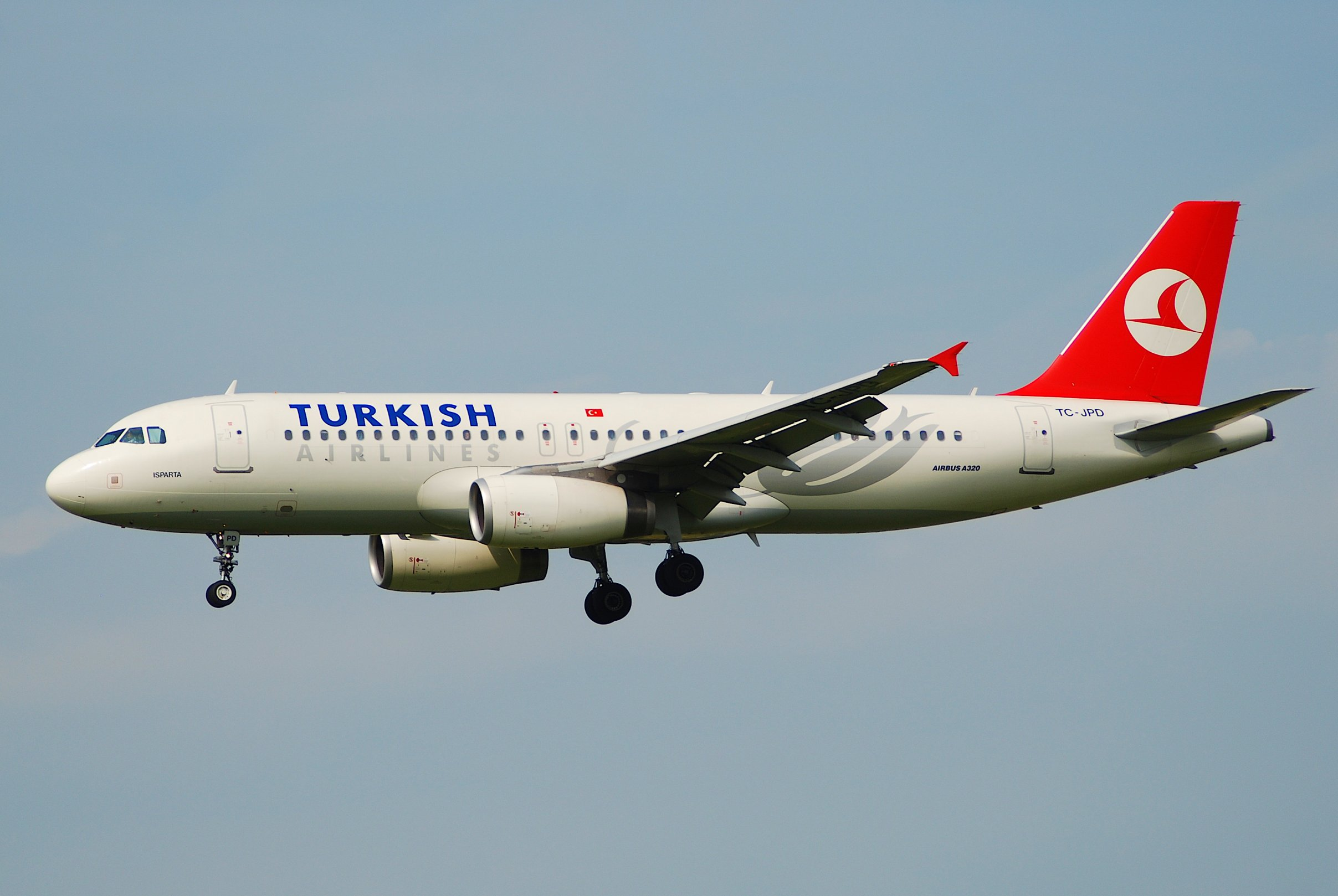 Turkish Airlines Airbus A320-232; TC-JPD@ZRH;09.06.2007/472el